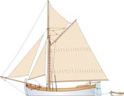 Single-masted bracera type "St. Nicholas" from Dubrovnik, Croatia